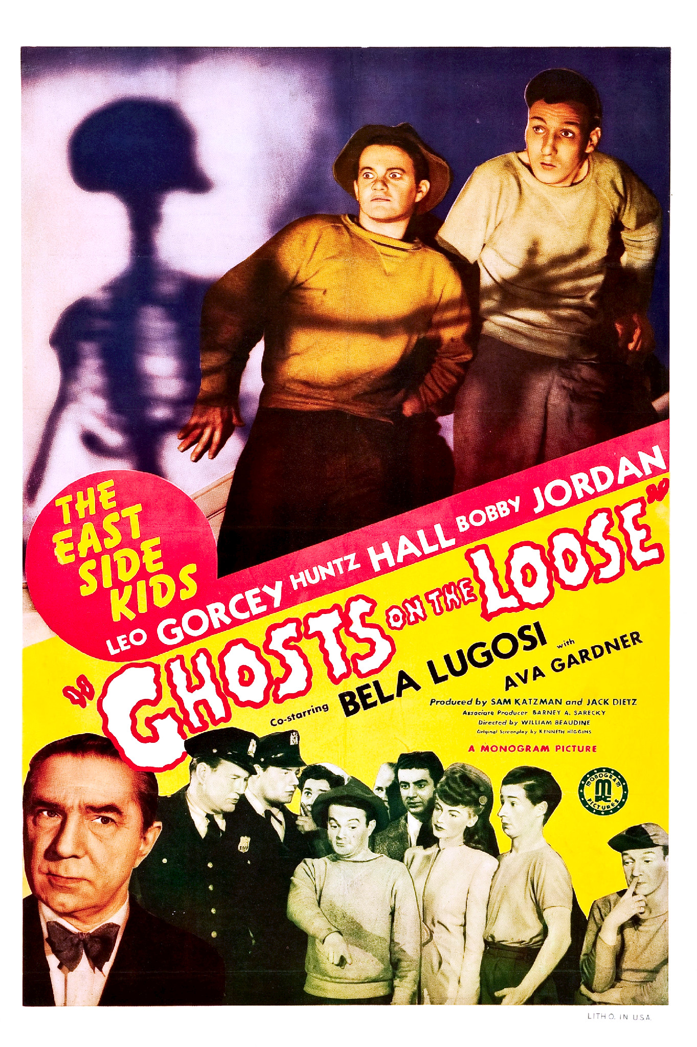 Poster for the 1943 film Ghosts on the Loose. The item has no copyright marks on it as can be seen at links and original upload. At bottom right is Litho in USA.